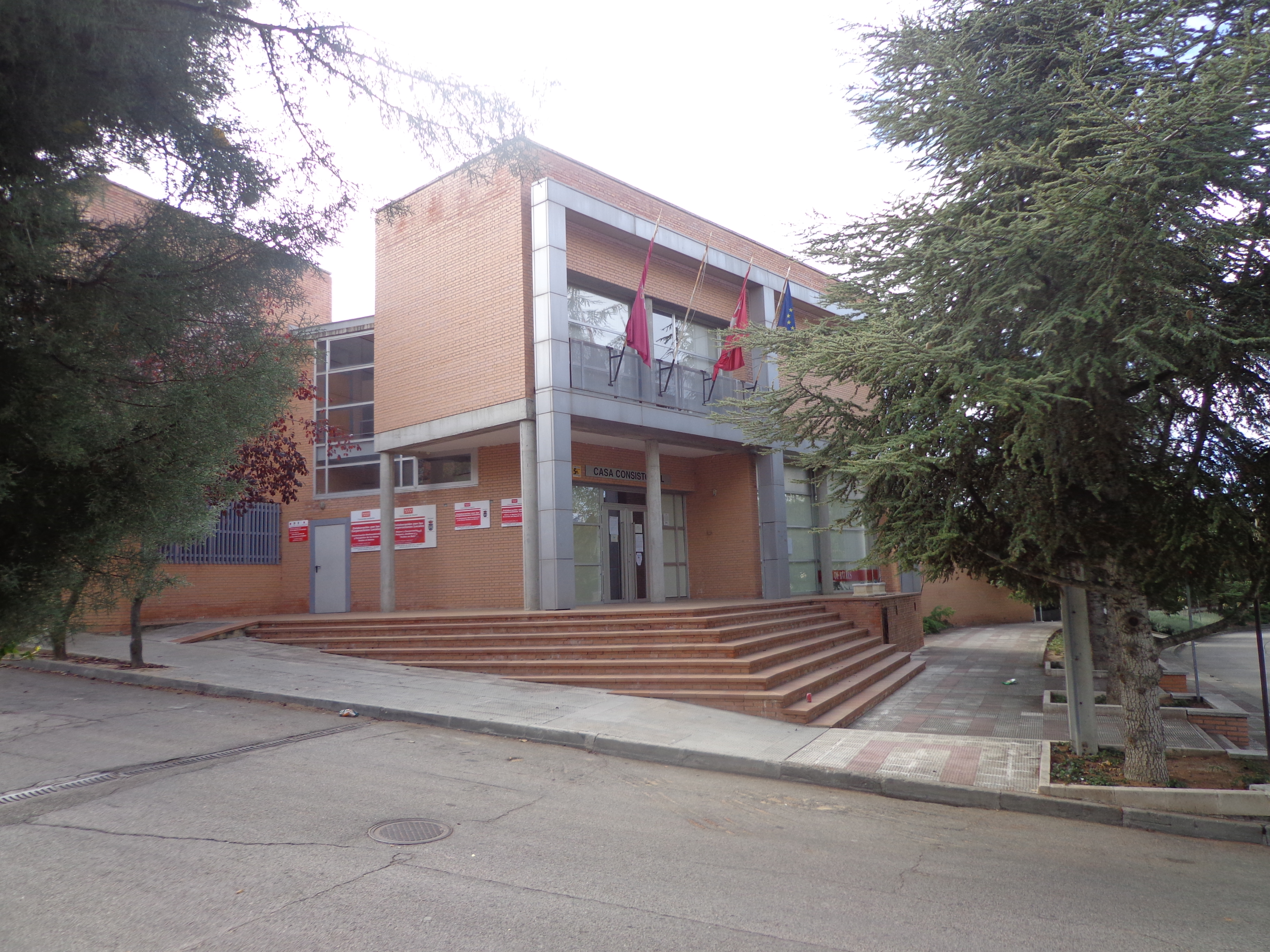 Town Hall of the Spanish town of Batres, Madrid.